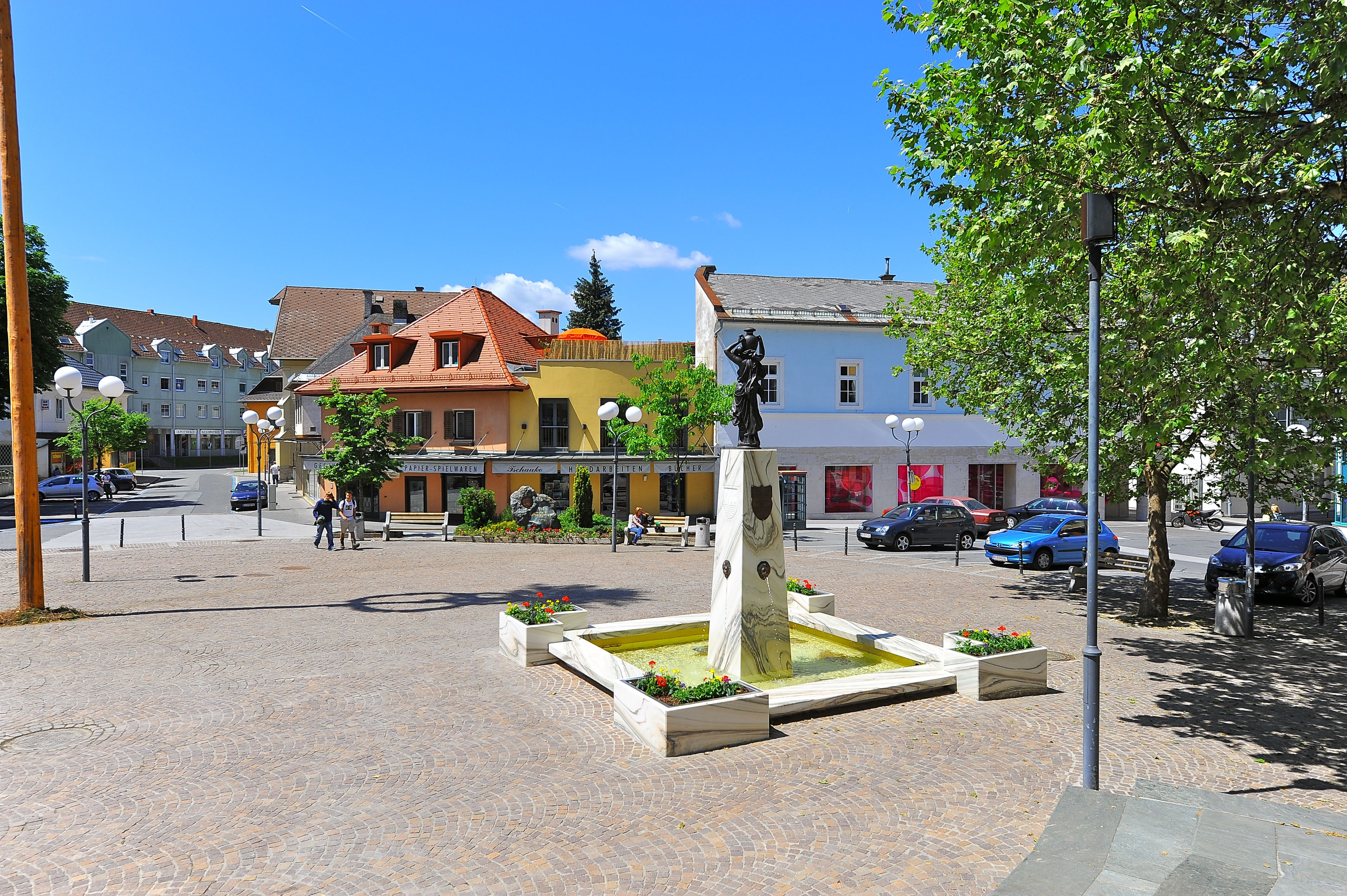 Main square with fountain, municipality Ferlach, district Klagenfurt Land, Carinthia, Austria, EU